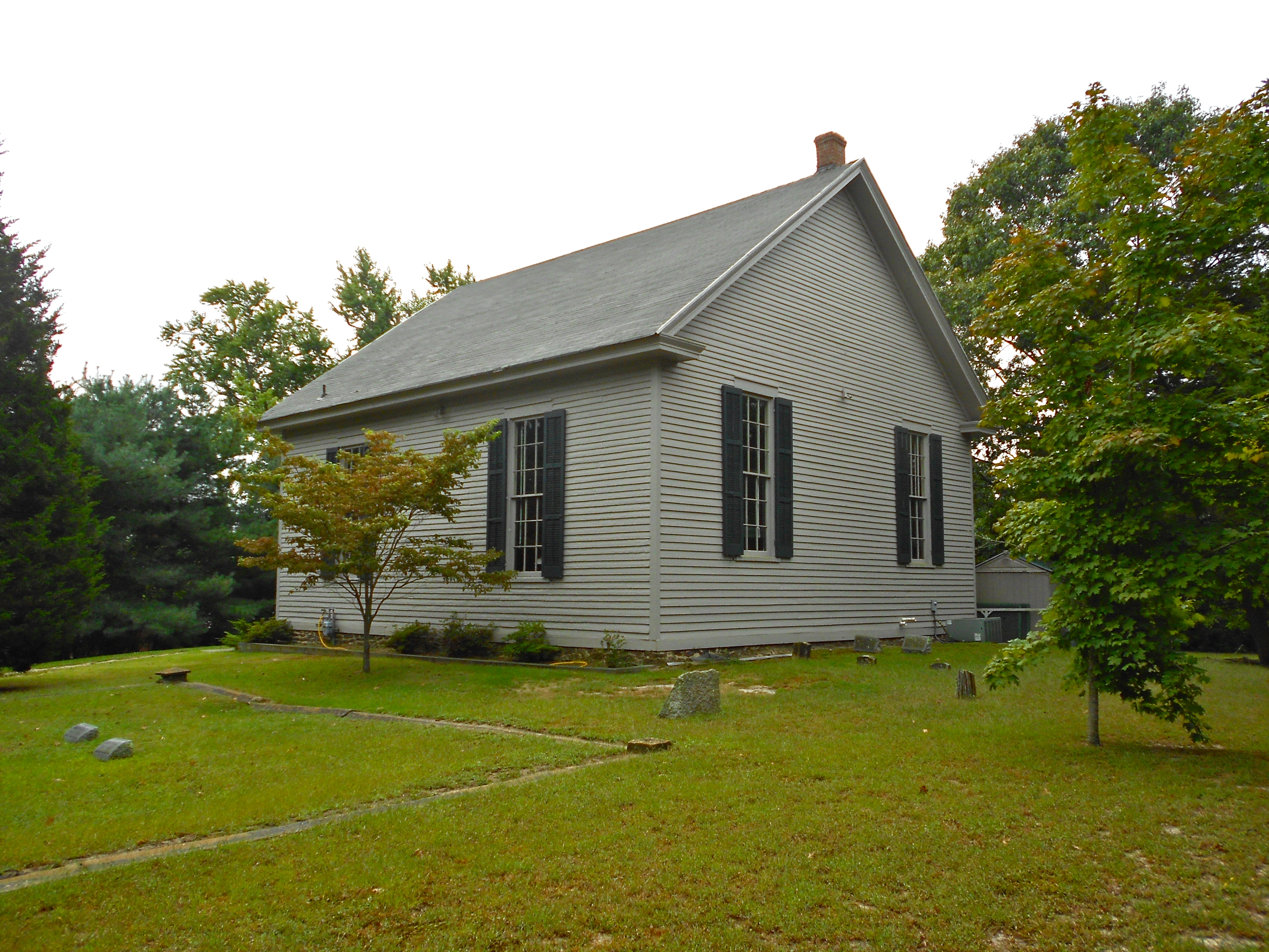 Little Egg Harbor Friends Meeting House Listed on the NRHP on December 9, 2002. At 21 E. Main St. Tuckerton, Ocean County, New Jersey.